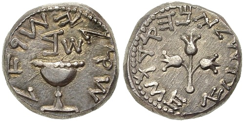 Silver shekel, second year of First Jewish Revolt (66-70 AC).